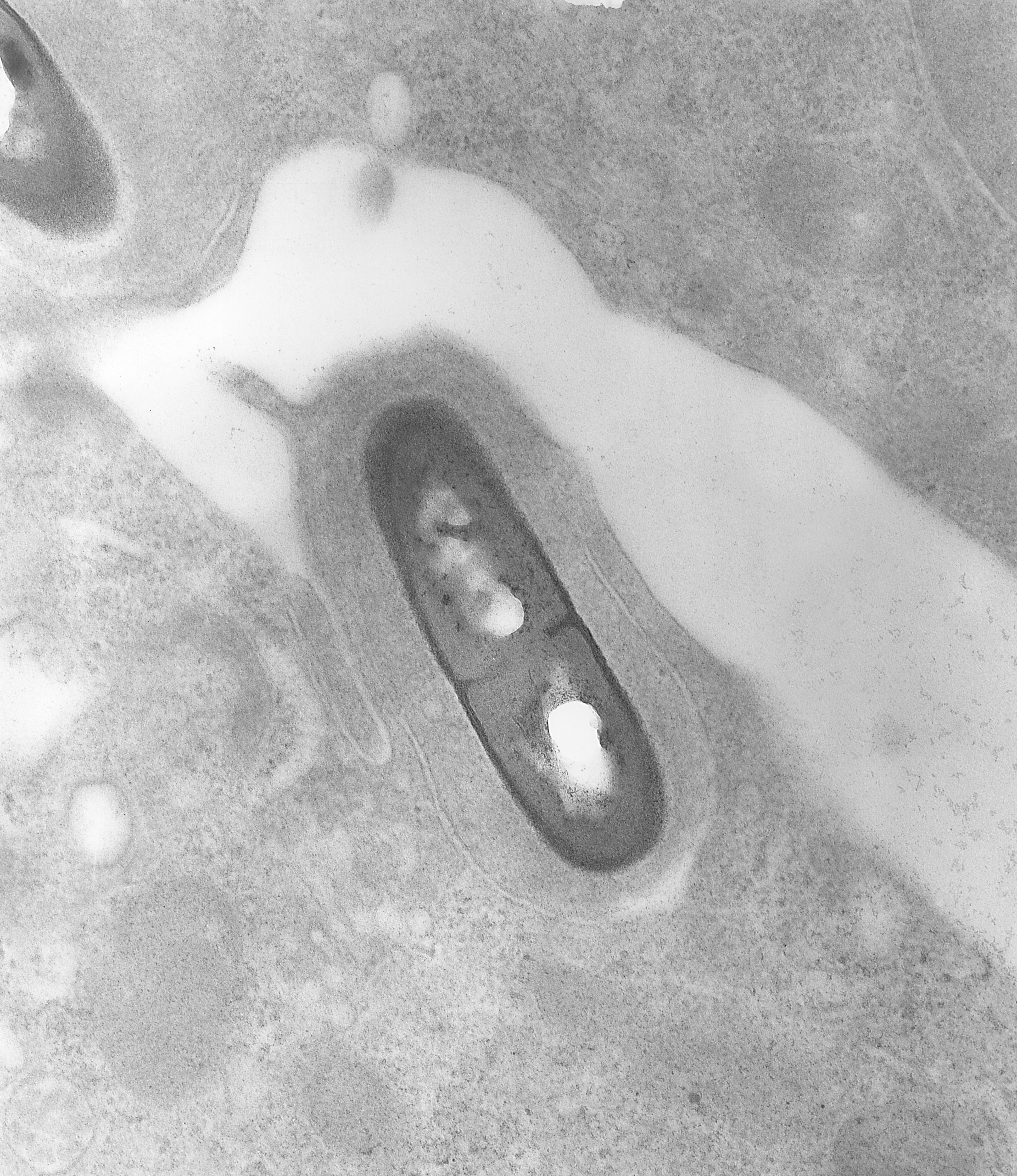 Electron micrograph of Listeria monocytogenes bacterium in tissue.